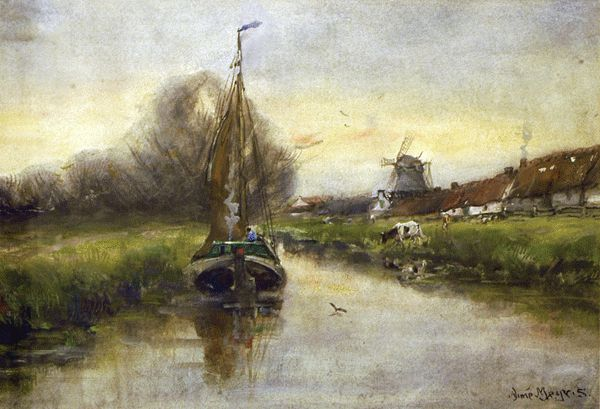 "Boat on the River", gouache and pastels on paper